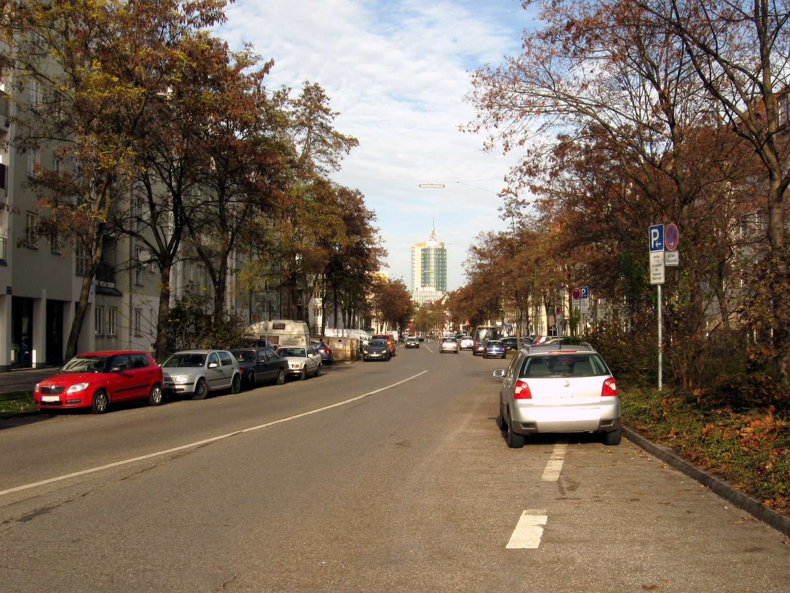 Trappentreustraße Northwards